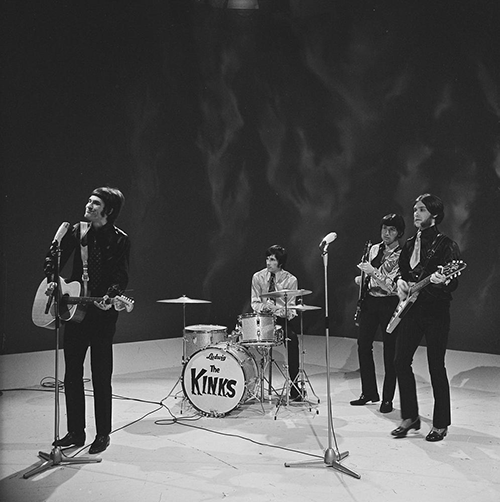 The Kinks in het televisieprogramma Fanclub